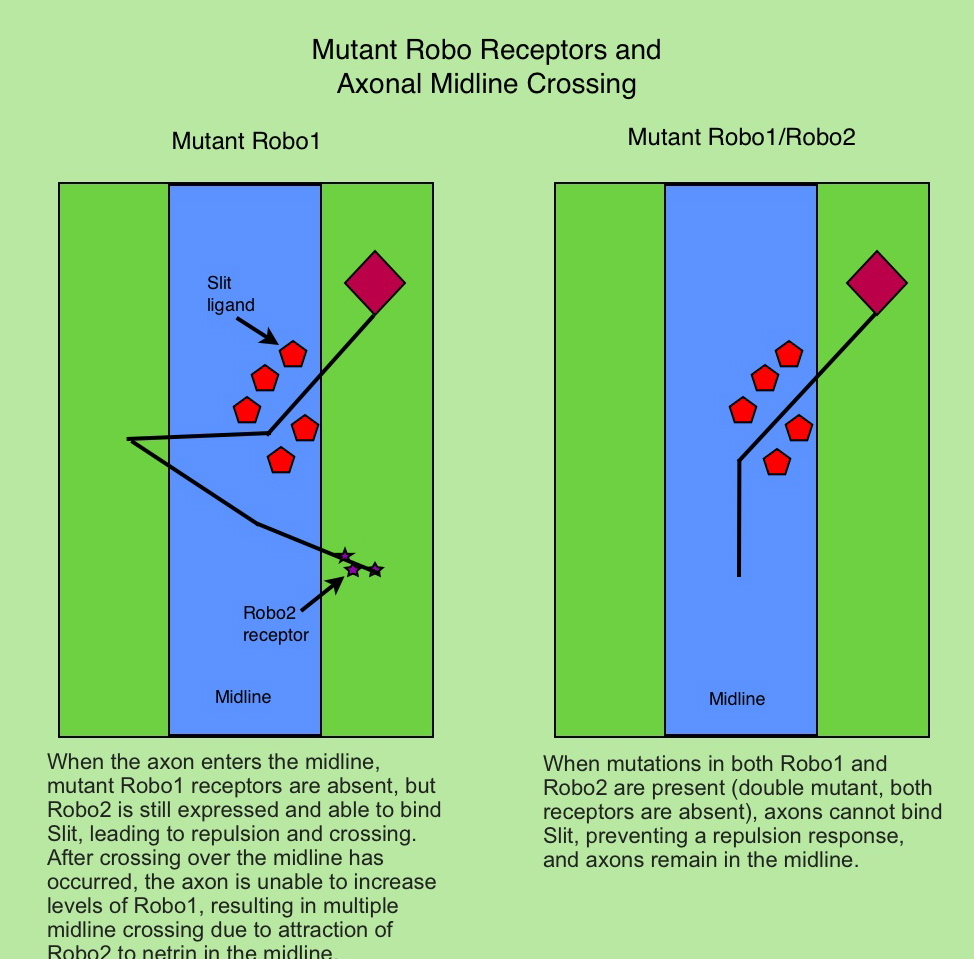 When Robo genes undergo mutation and the gene products are absent from growing axons, midline crossing is abnormal.